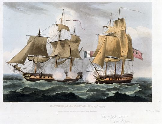 Capture of the Castor May 29th 1794